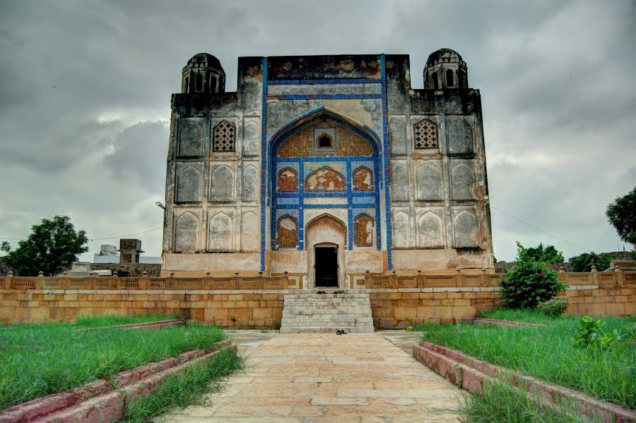 Sunni shrine — 18th century architecture of the Kalhora Dynasty, in Sindh province, Pakistan. "Precious picture of Saint and Kalhora Ruler of Kalhora Dynasty."